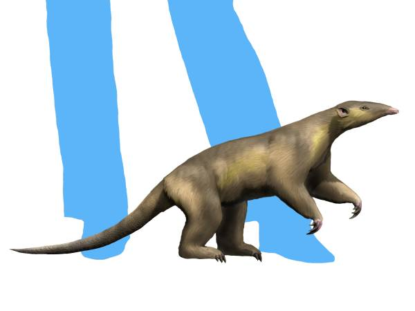 Life reconstruction of Eurotamandua joresi